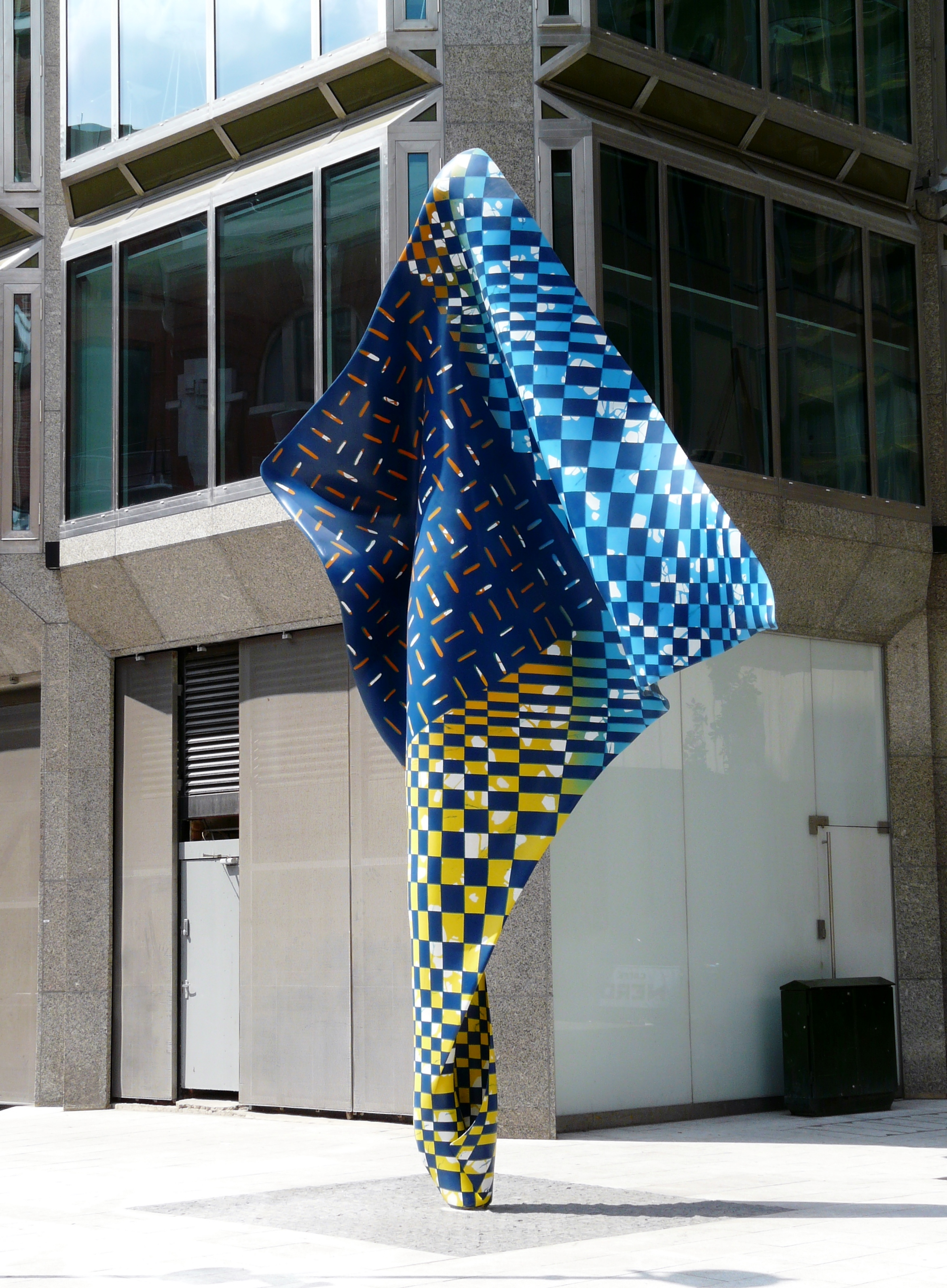 Wind Sculpture (Yinka Shonibare, 2014), Howick Place, London SW1